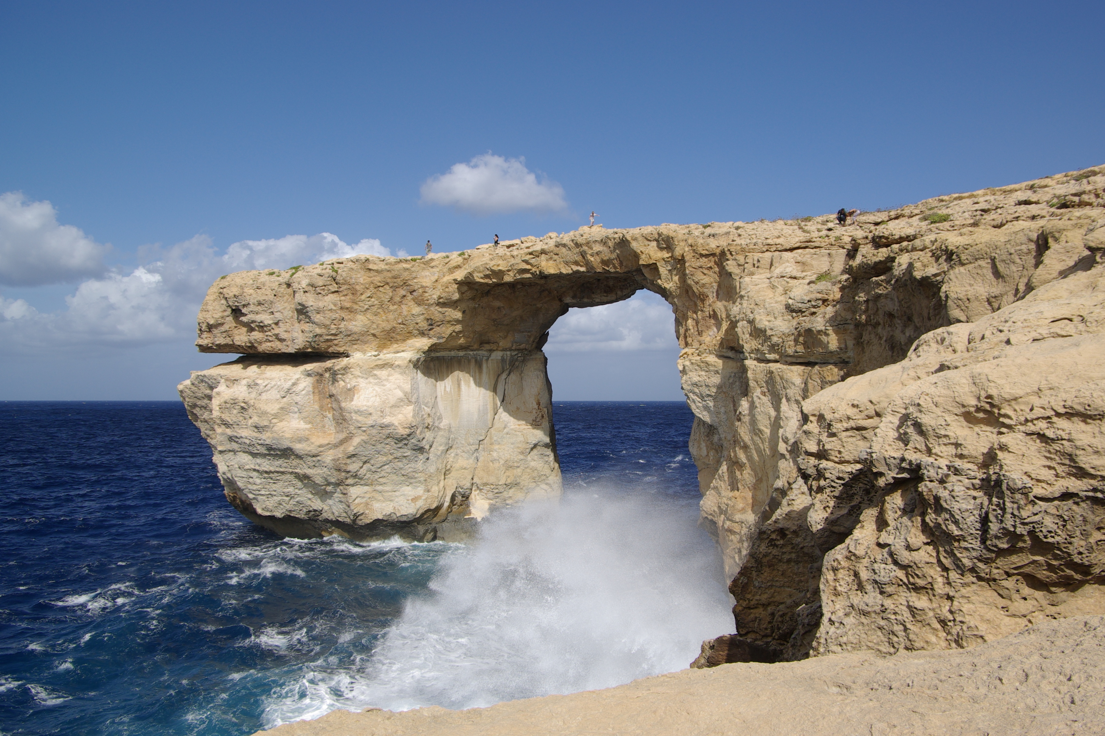 Malta, Gozo, Azure Window.